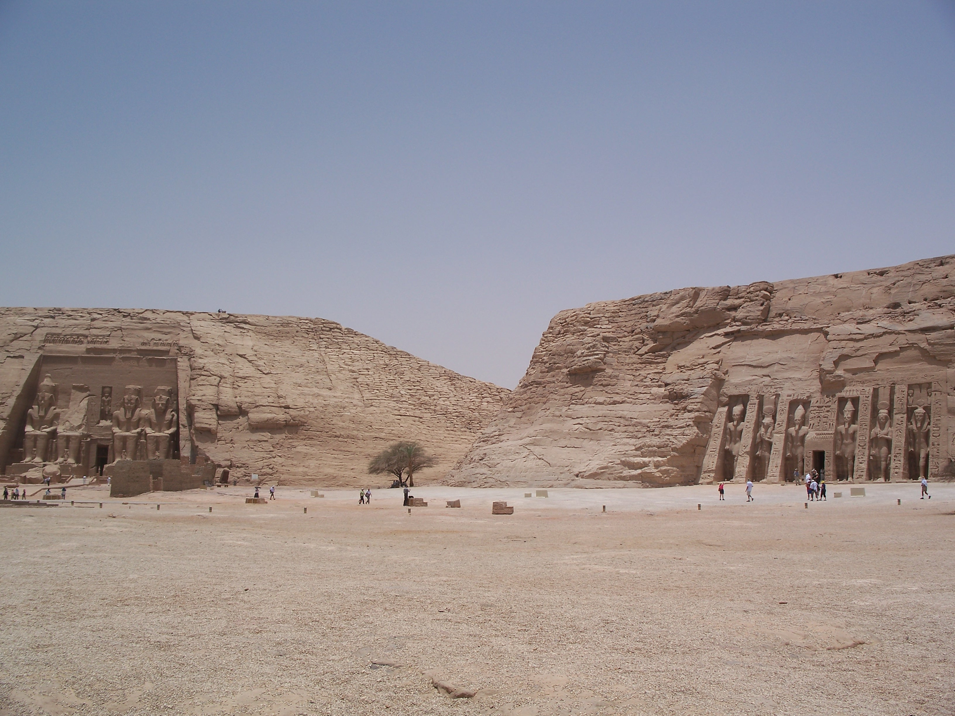 Abu Simbel Temples of Ramesses II and Nefertari. Taken by myself. May 30, 2007.